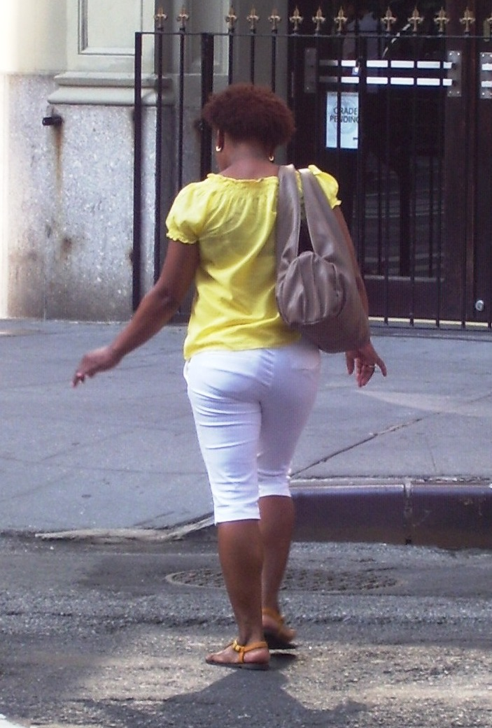 A woman wearing pedal pushers in the Flatiron District neighborhood of Manhattan, New York City